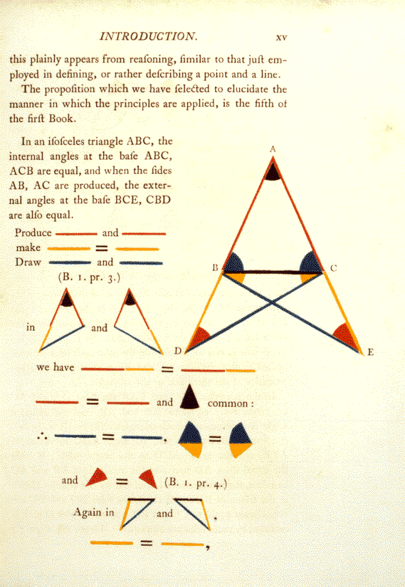 Oliver Byrne's edition of Euclid